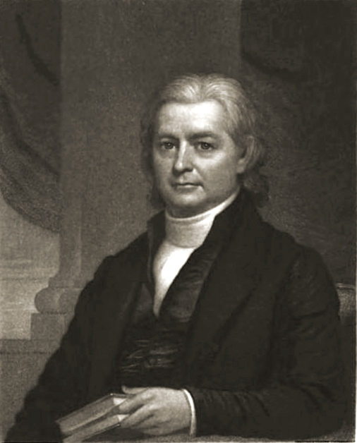 Engraving of American biographer William Allen (b. 1784), president of Bowdoin College for nearly 20 years. From History of Bowdoin College: With Biographical Sketches of Its Graduates, from 1806 to 1879, Inclusive, by Nehemiah Cleaveland and Alpheus Spring Packard. Published by J. R. Osgood & Co., 1882, page 116.